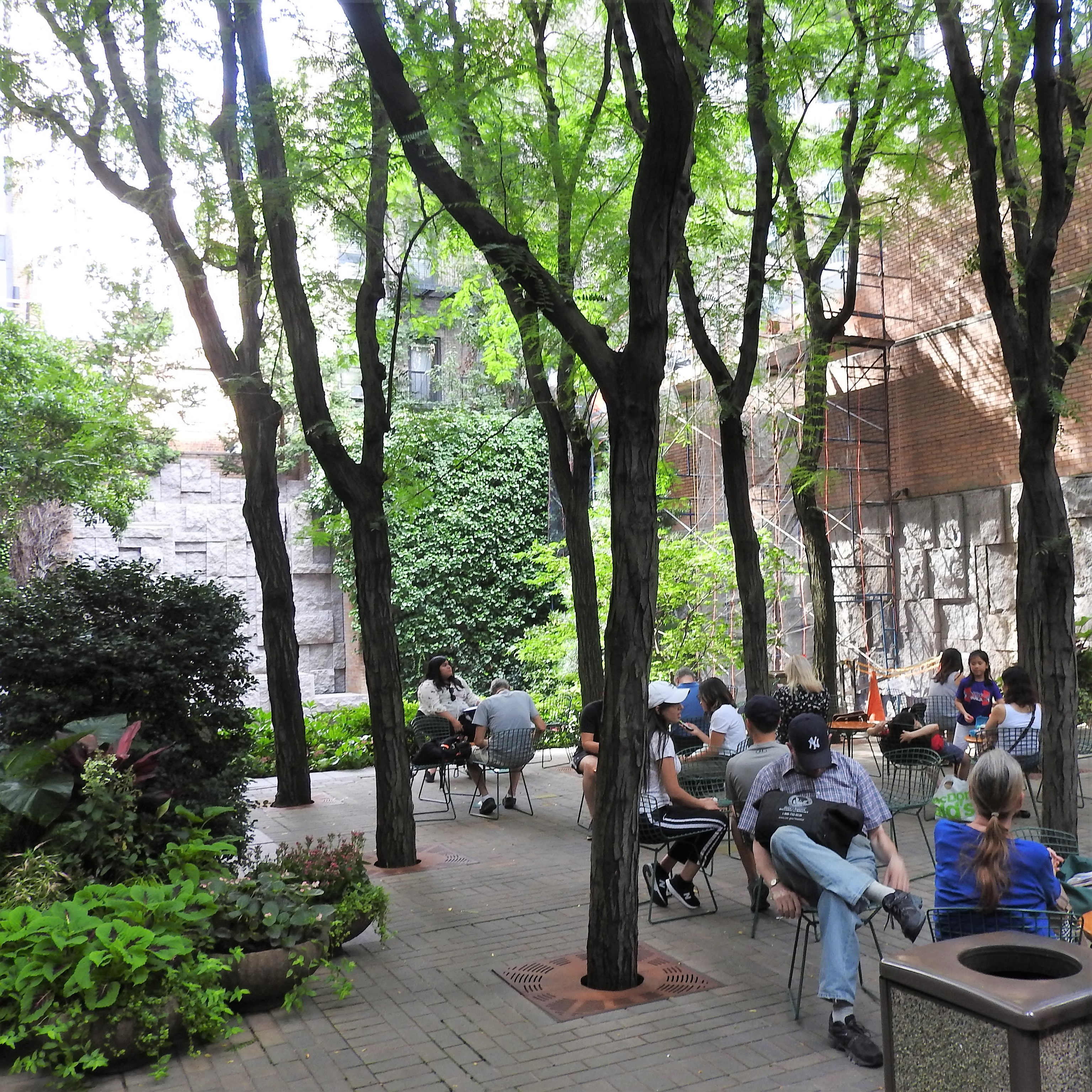 Hazy midday